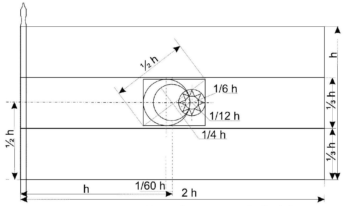 Construction sheet of the Flag of Azerbaijan